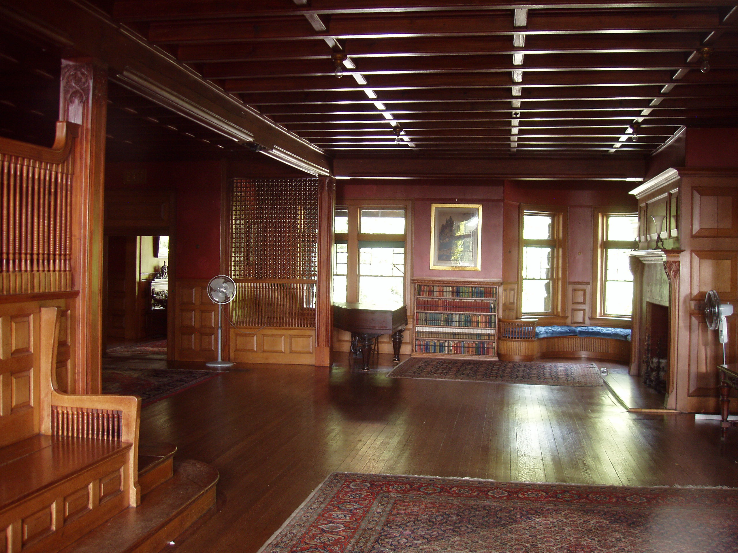 Robert Treat Paine Estate, Waltham, Massachusetts. View of a small portion of the grounds. Photograph taken by me, August 2005.